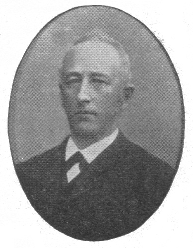 Jacob Aall Bonnevie, from Emil Stang's first cabinet (1889–91).